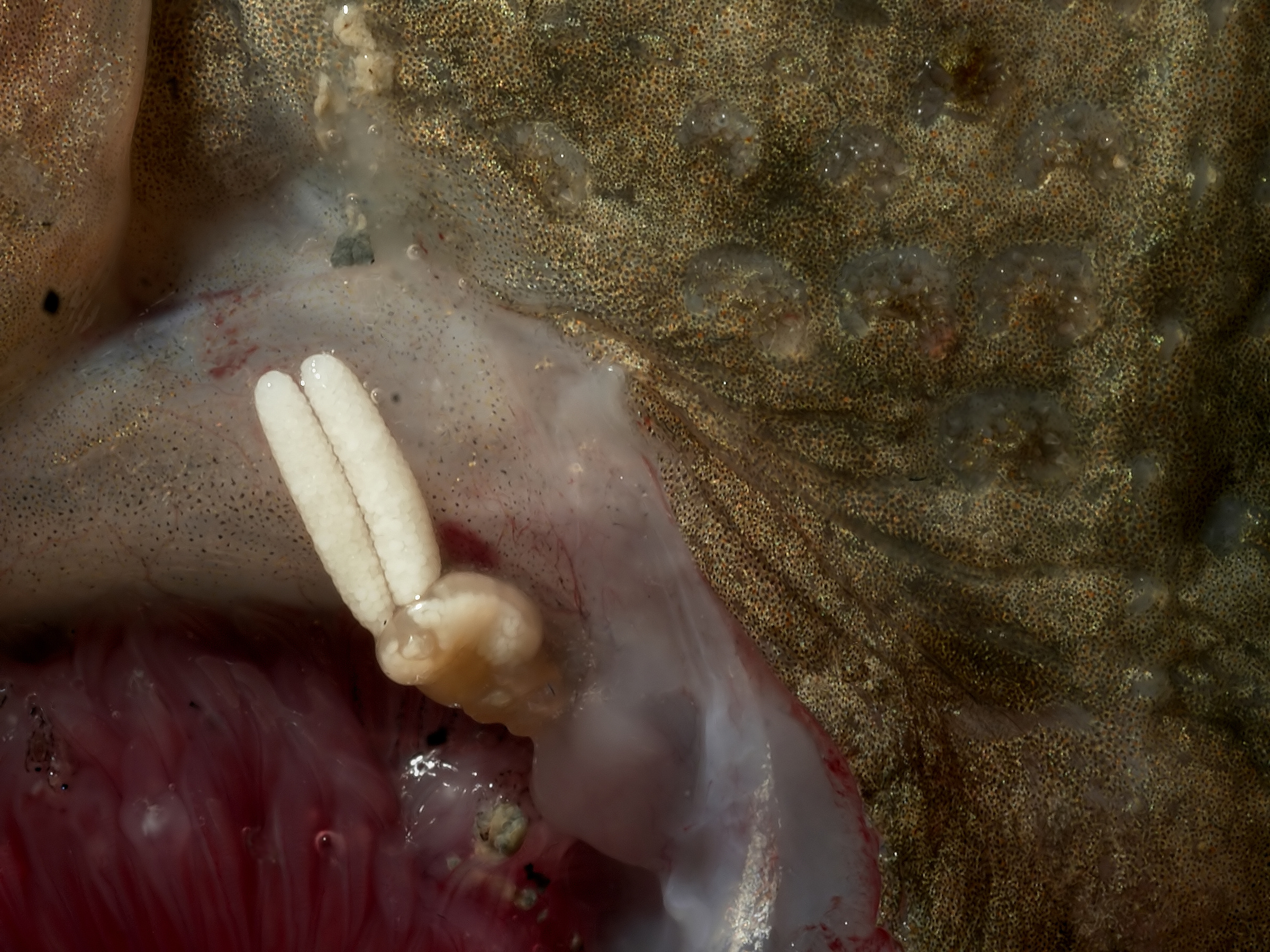 Specimen of the parasitical copepod Acanthochondria cornuta on the operculum, next to the gills of a European flounder (Platichthys flesus), from the Belgian coastal waters (East of Zeebrugge). Length of each egg sack approx. 4 mm.